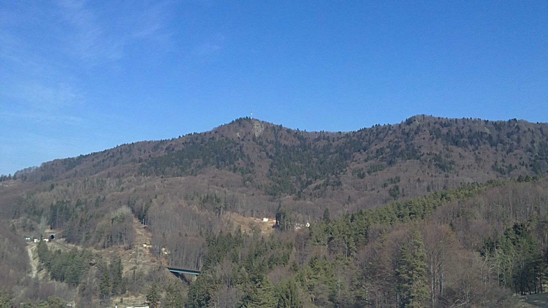 Bralova skala in Ziar